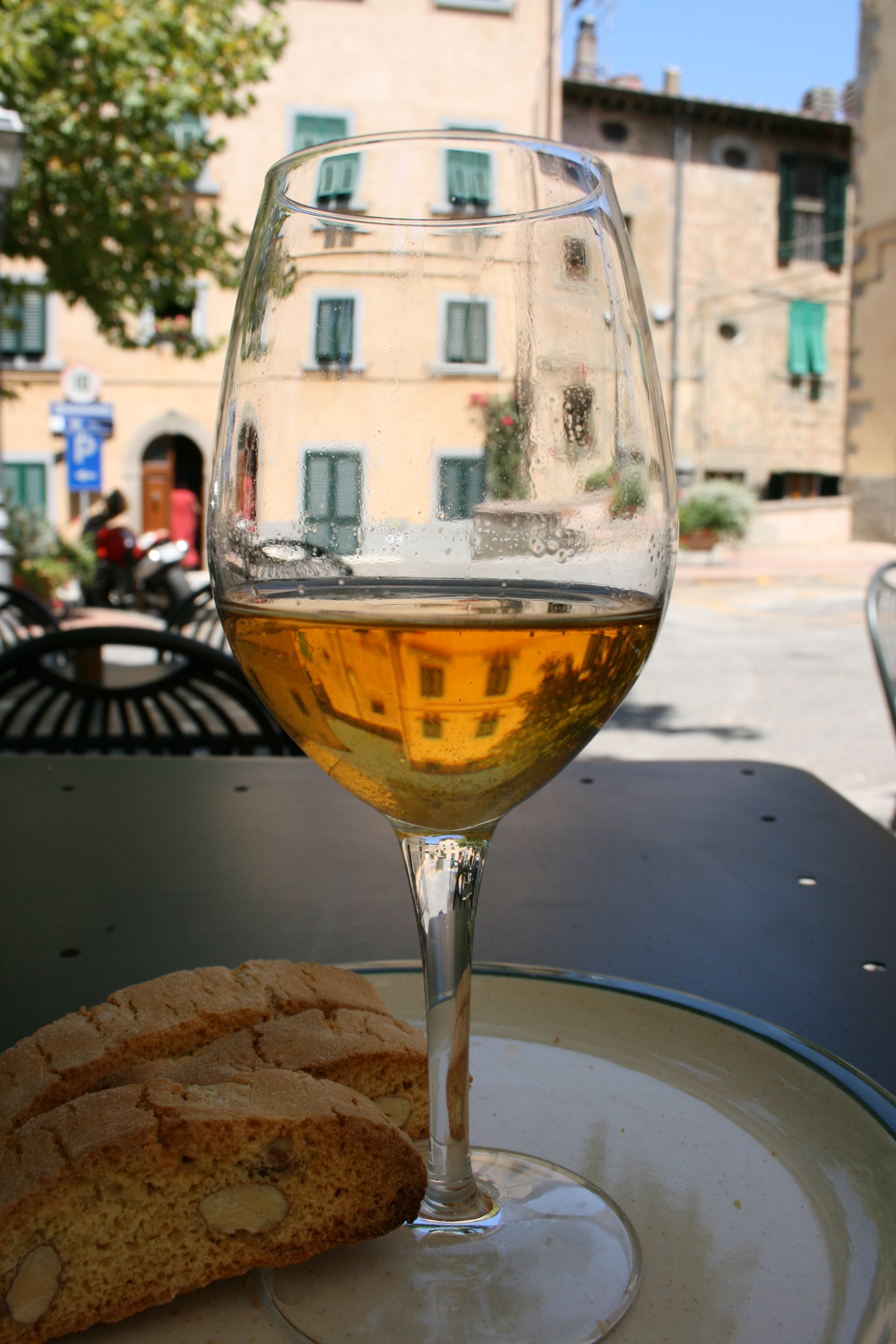 Photo taken at Castagneto Carducci, Tuscany, Italy.